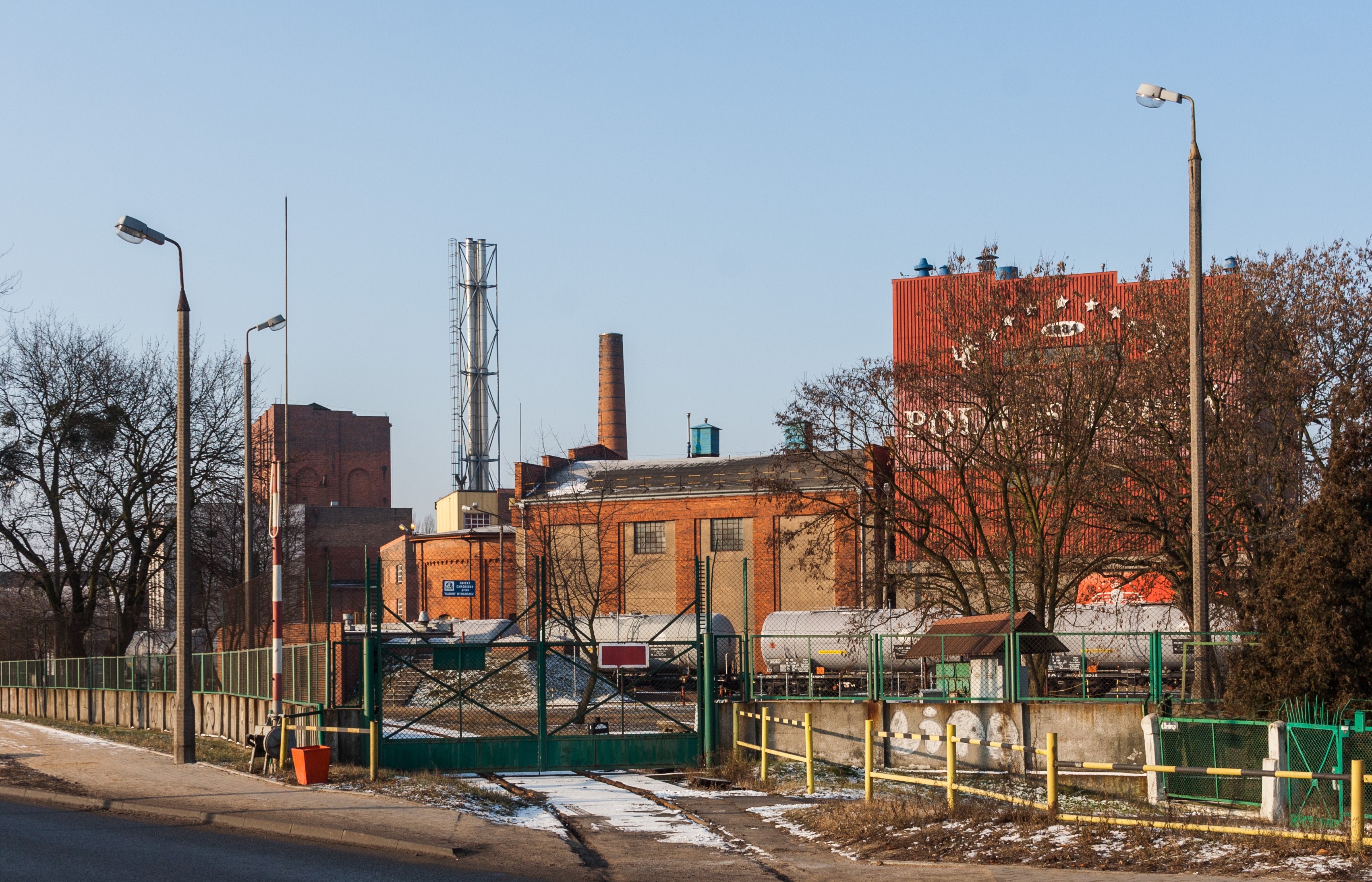 Polmos, Toruń.